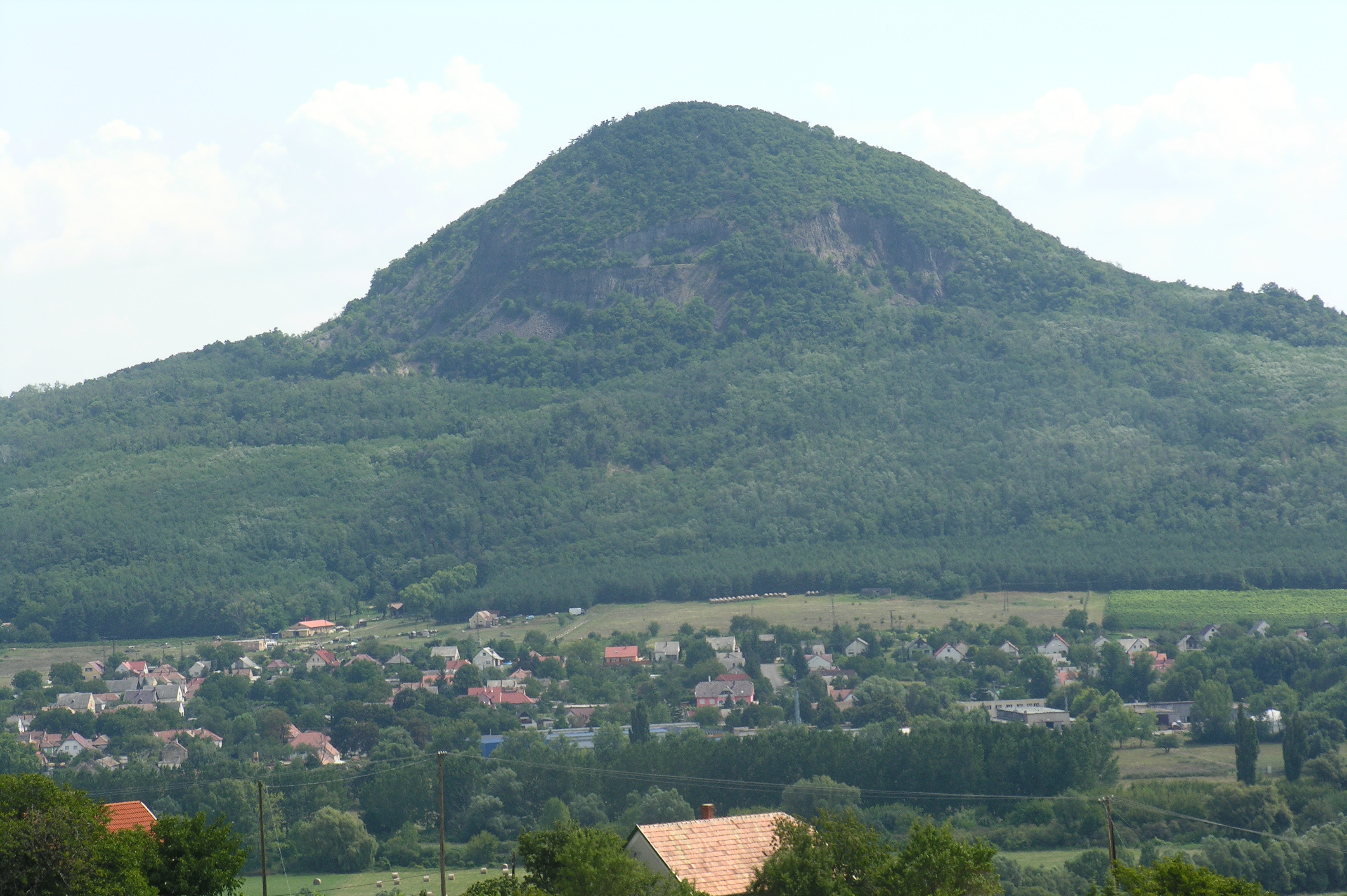 View of Nemesgulács